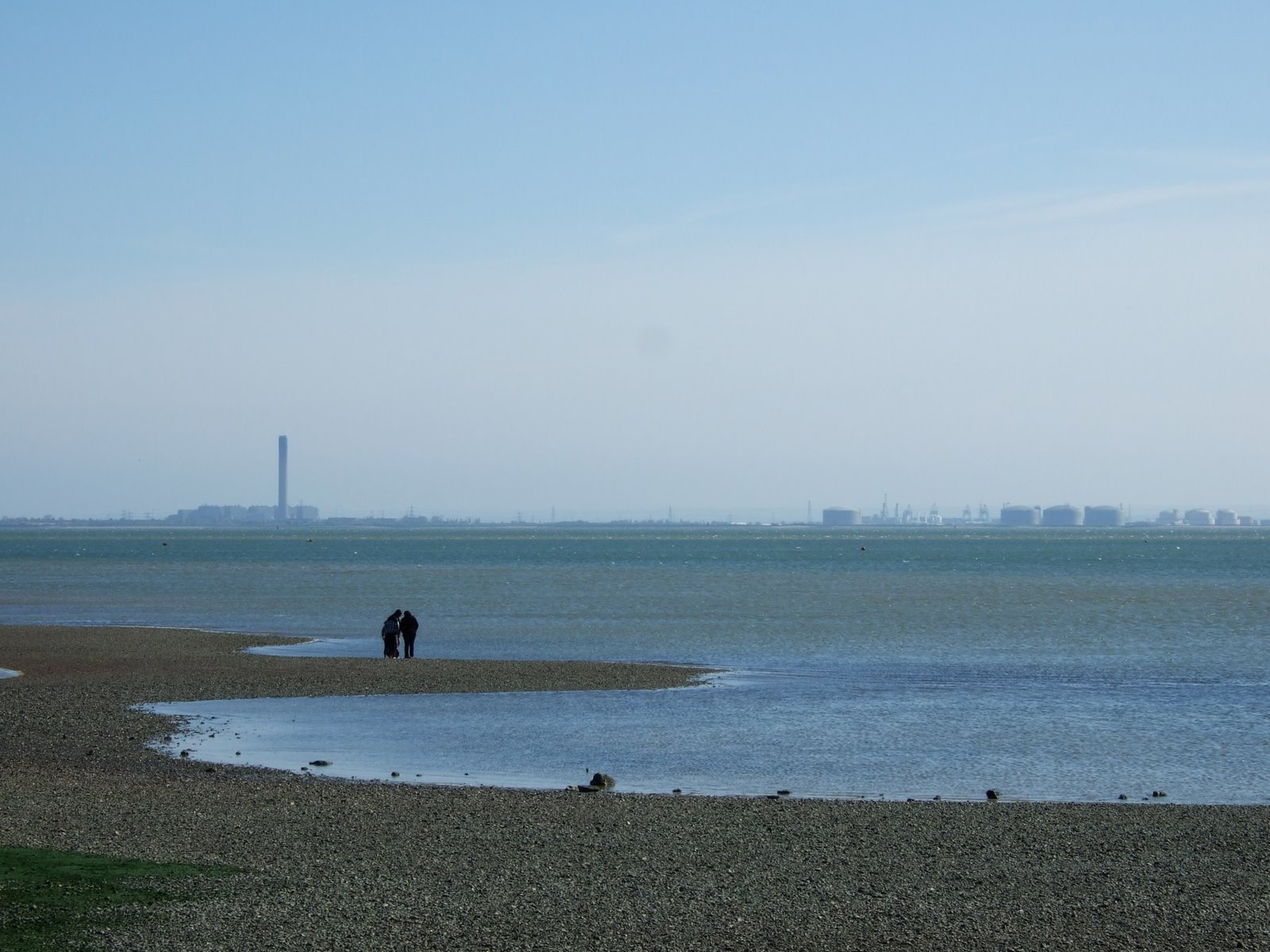 A view south-east across the Thames estuary from the shore at Westcliff-On-Sea, Essex